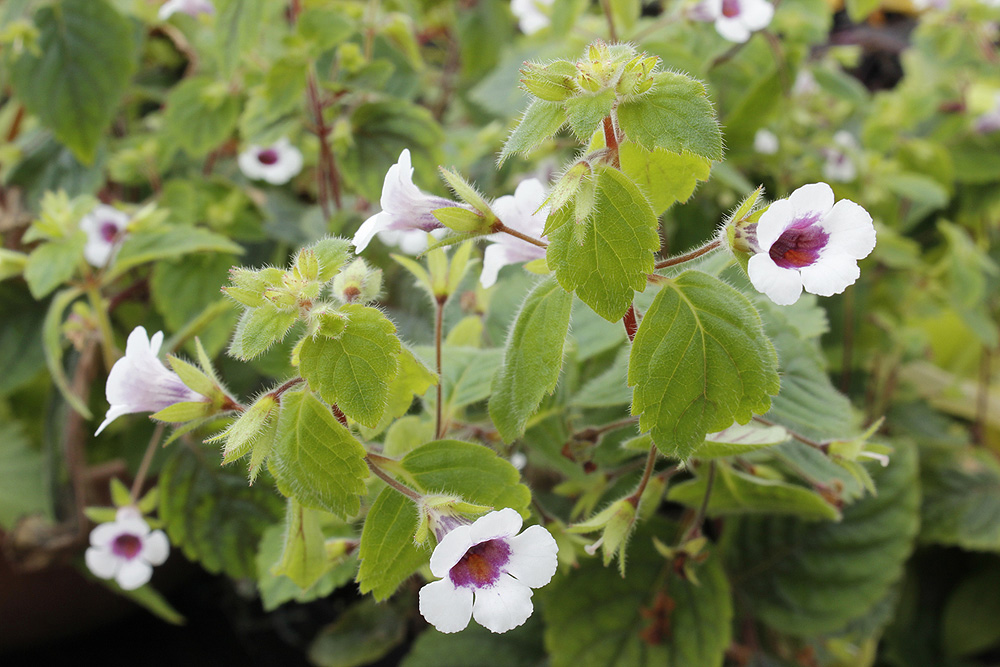 Achimenes misera, a species of rhizomatous, herbaceous, tender perennial plant